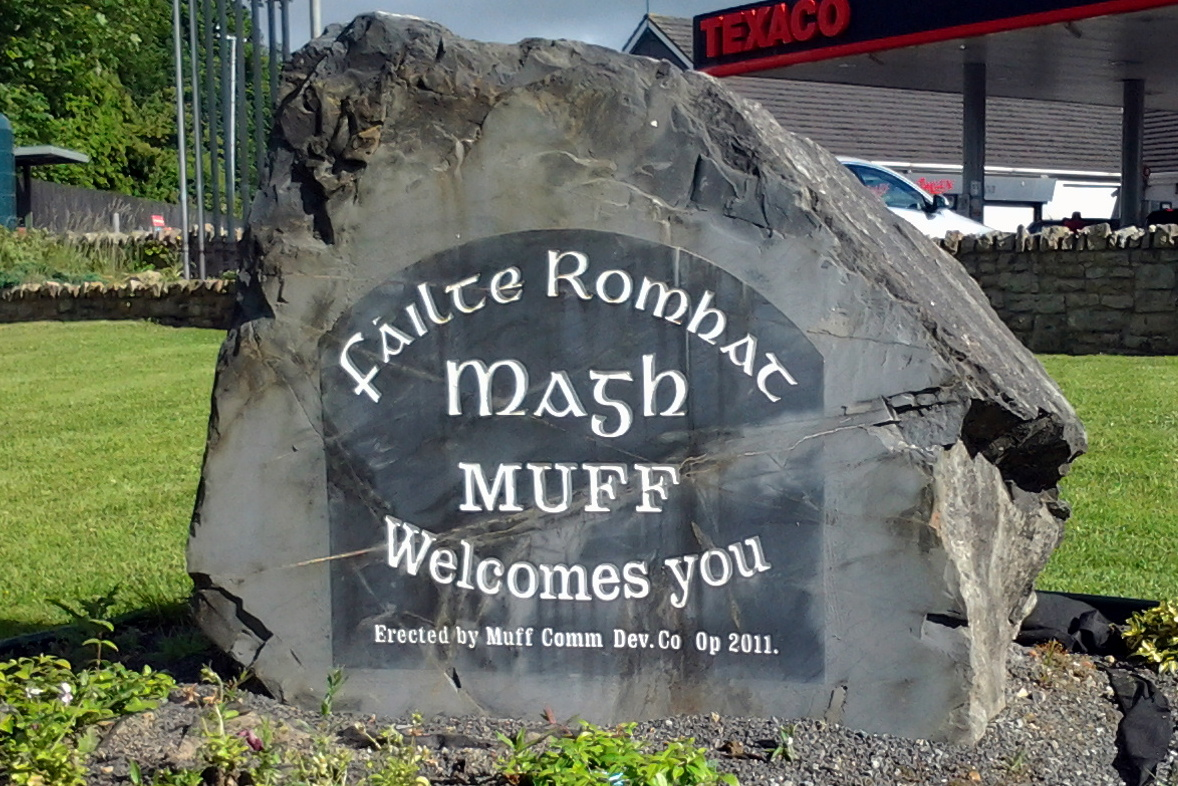 Welcome to Muff, County Donegal